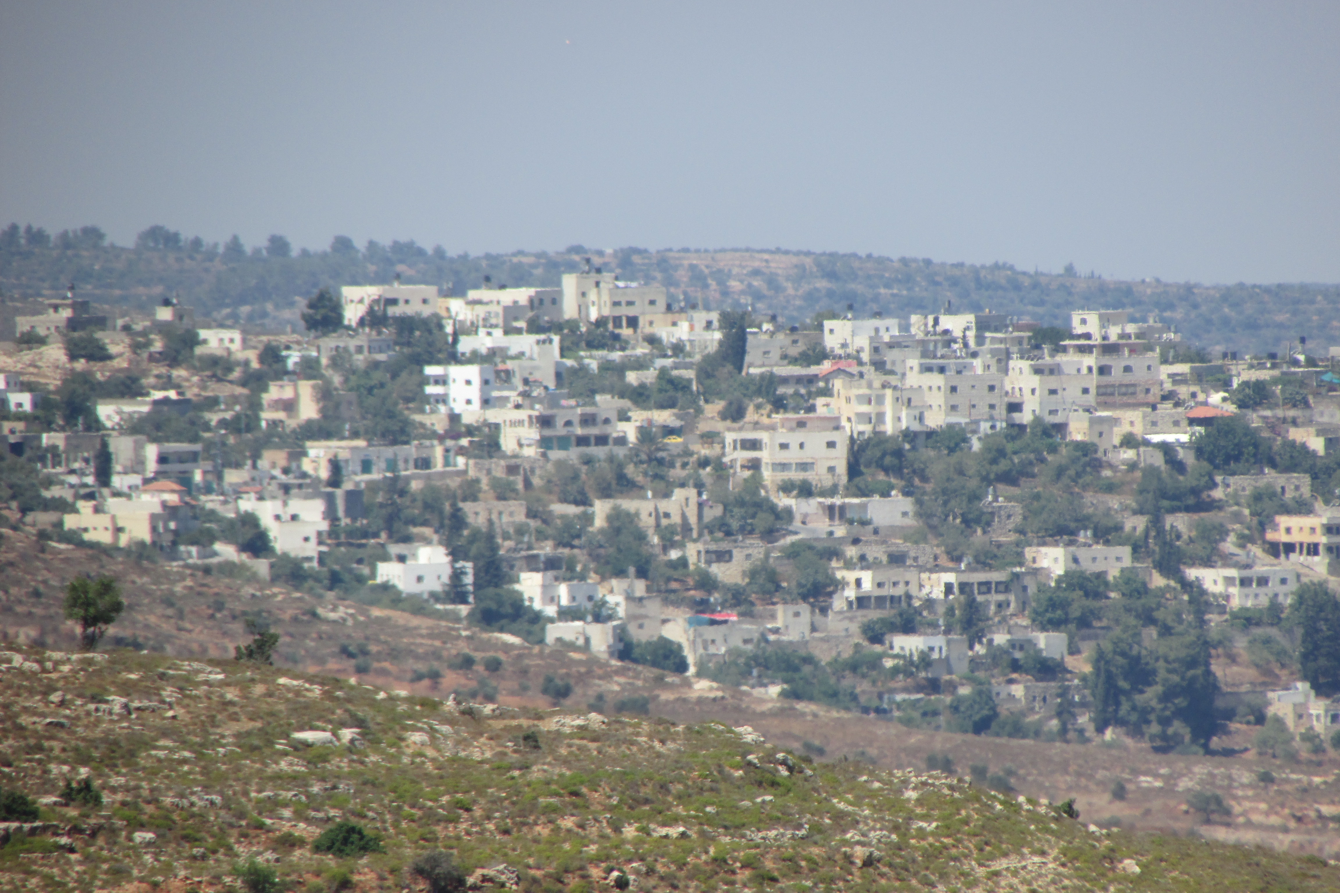 Abwein from north east